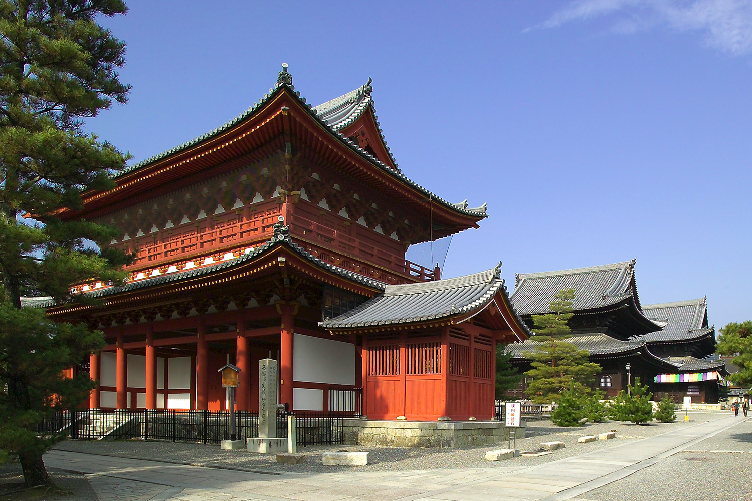 Main buildings at Myōshin-ji, Kyoto, Japan. Left to right: Sanmon 三門, Butsuden 仏殿, Hattō 法堂